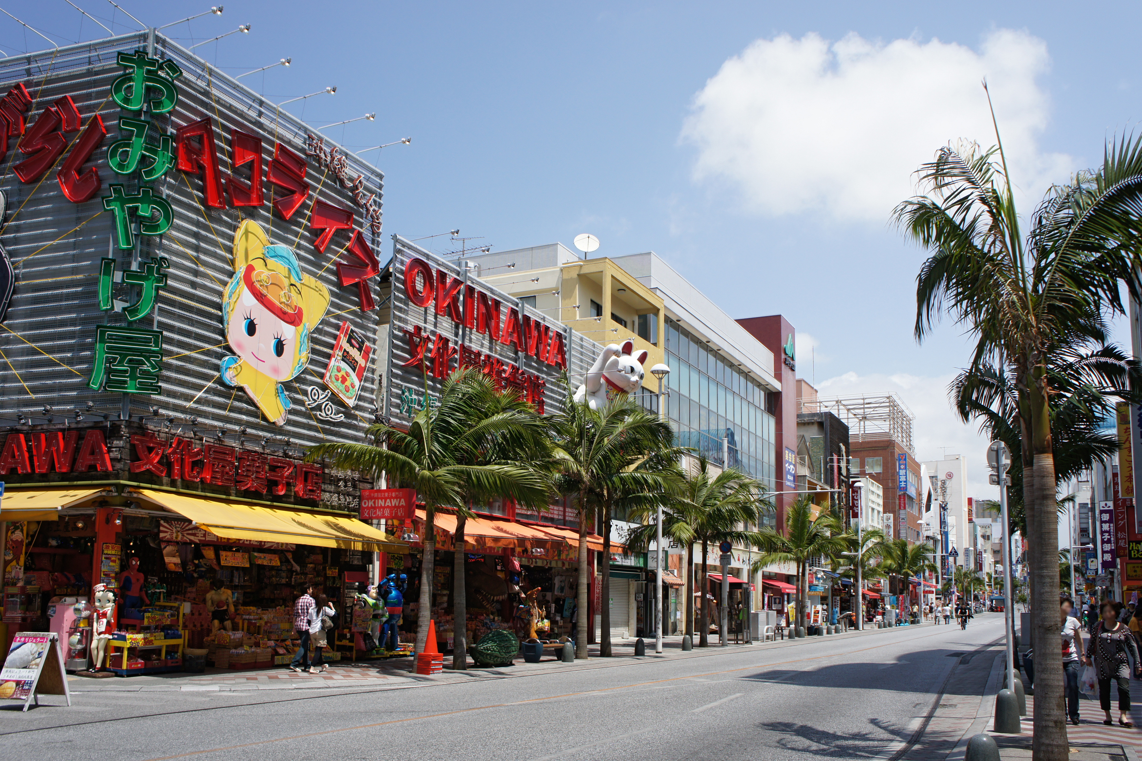 Kokusai-dori (Kokusai street), Naha, Okinawa prefecture, Japan